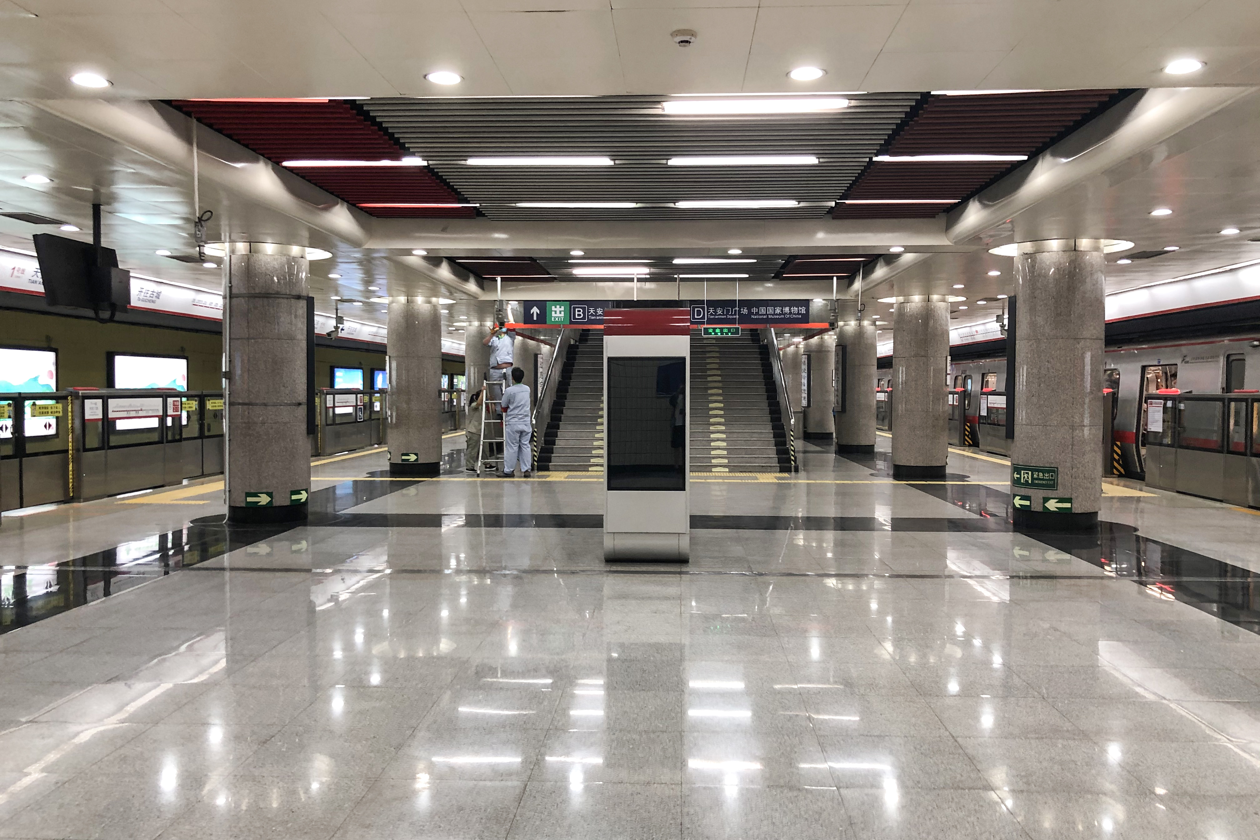 Nearly forgot that it changed its guidance banner!